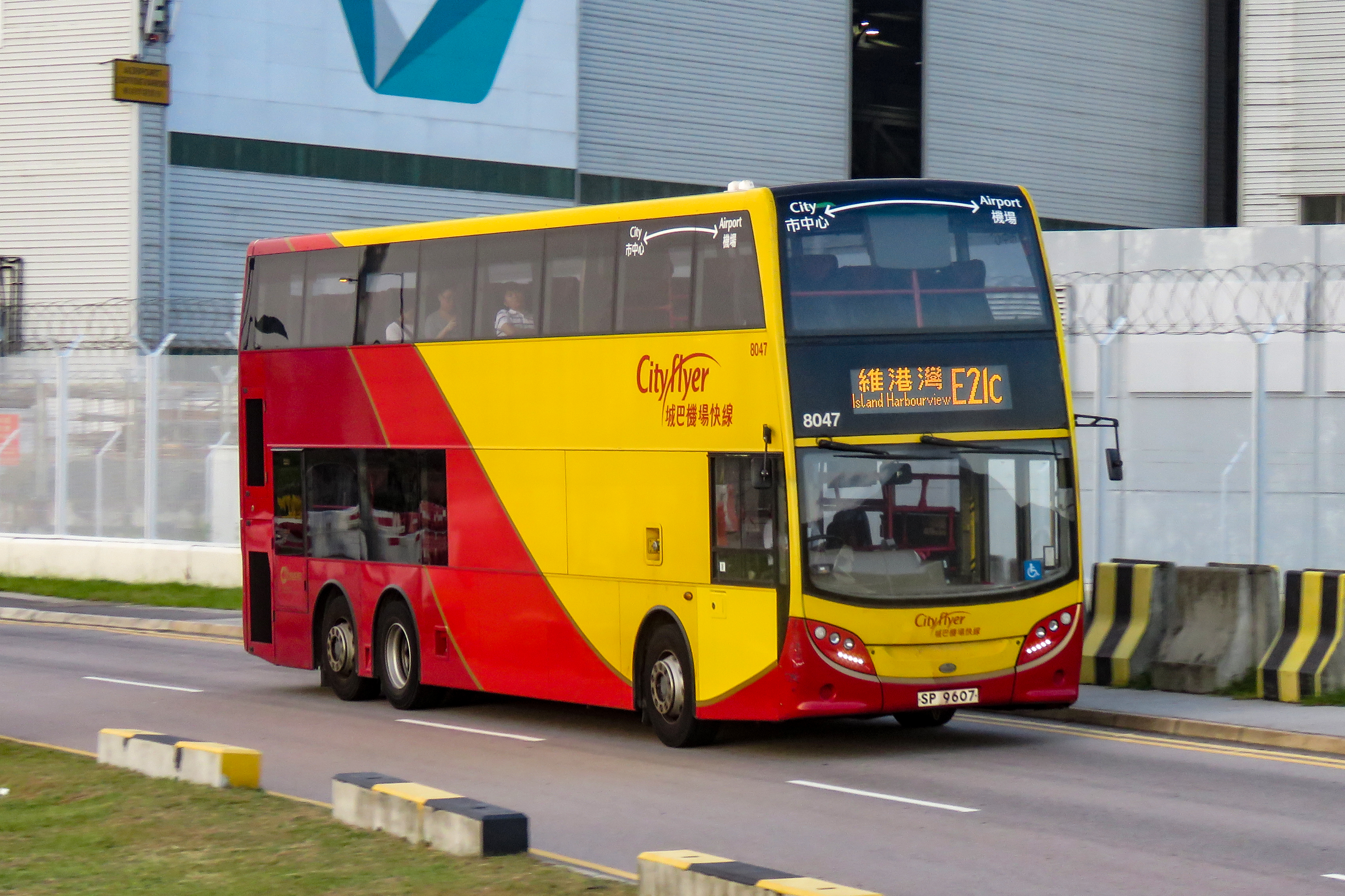 I saw 6844 today... but didn't catch its regn.